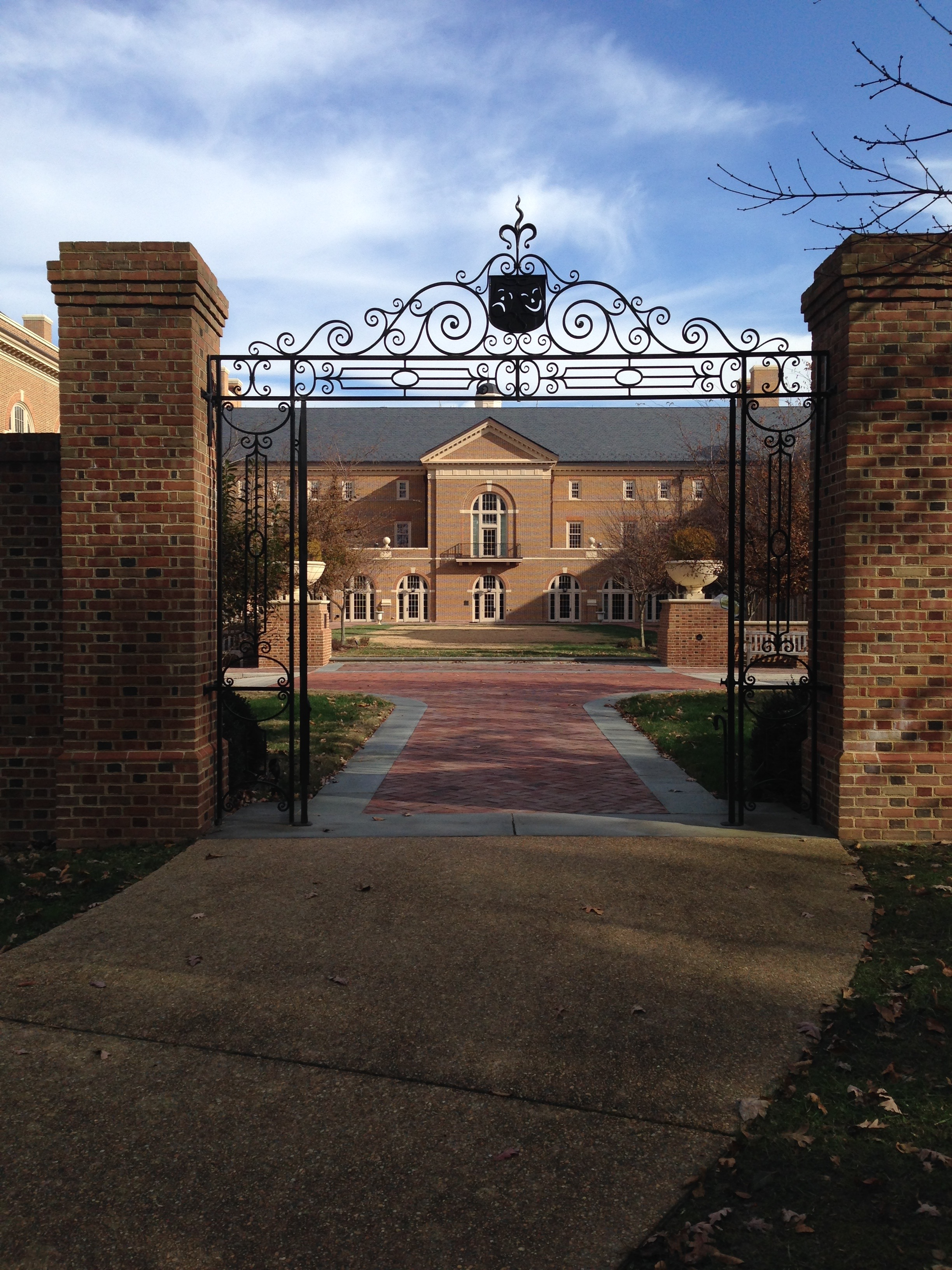 Back of school